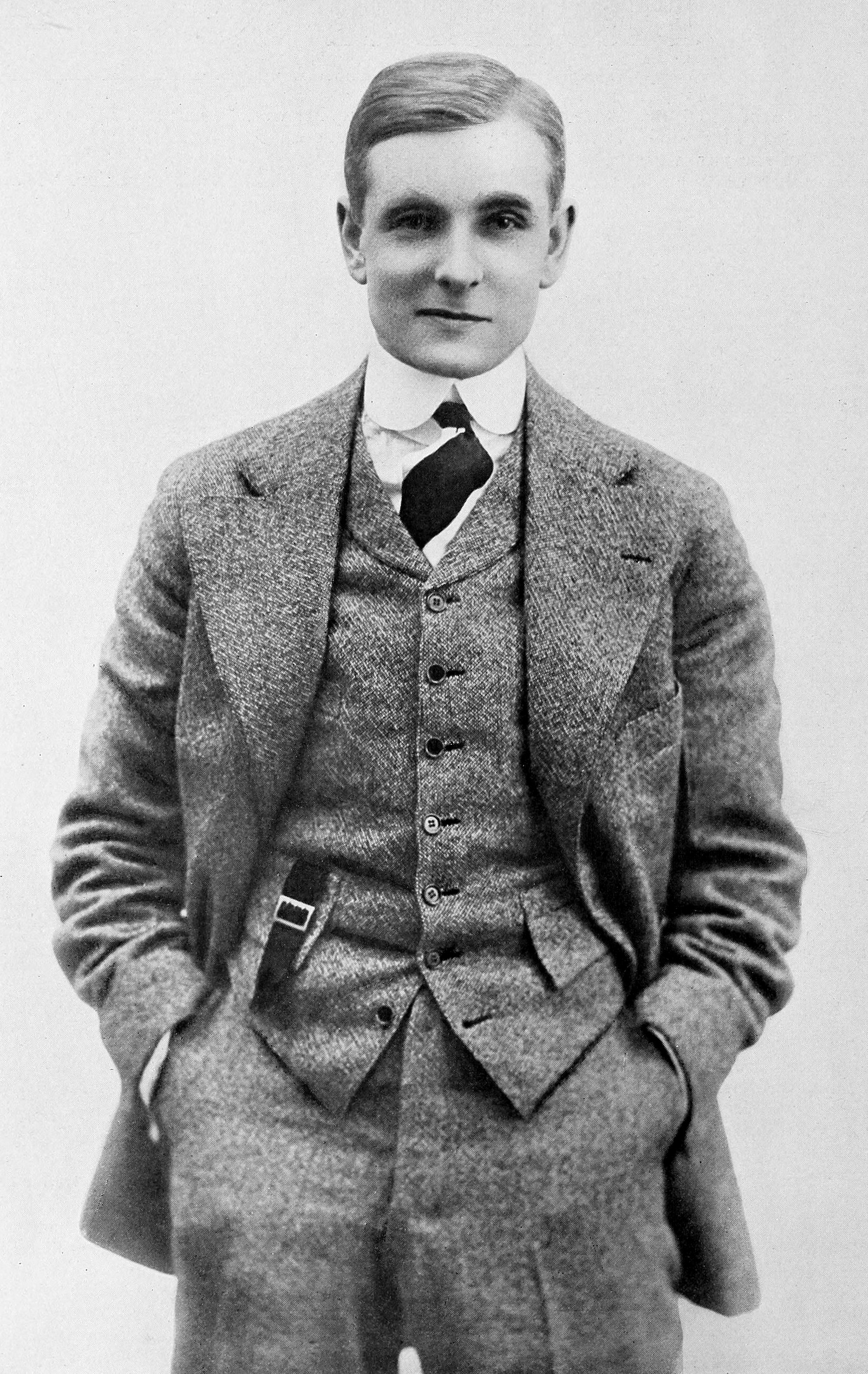 Portrait of Creighton Hale